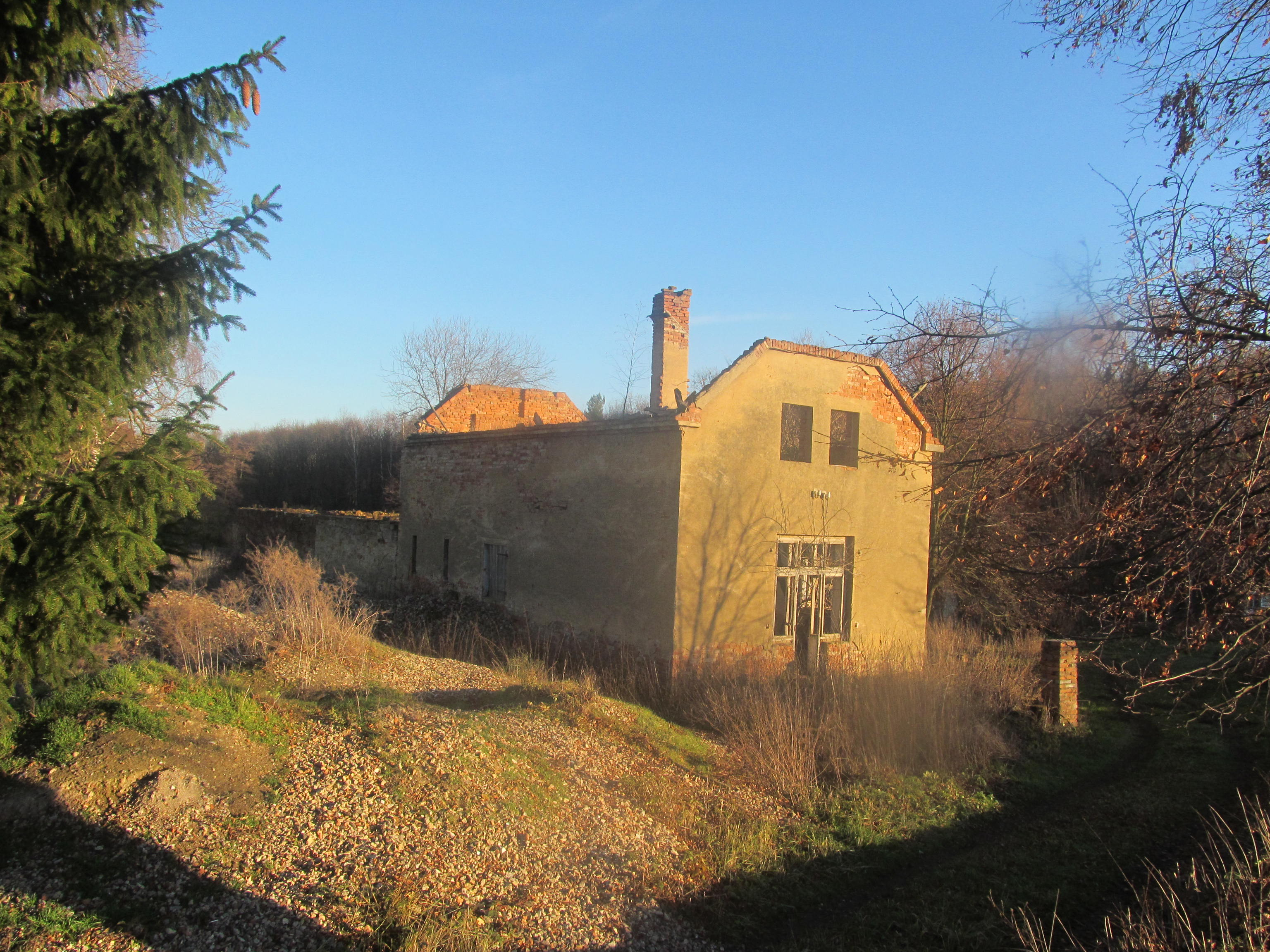 Ruins of the former Pacovský mill